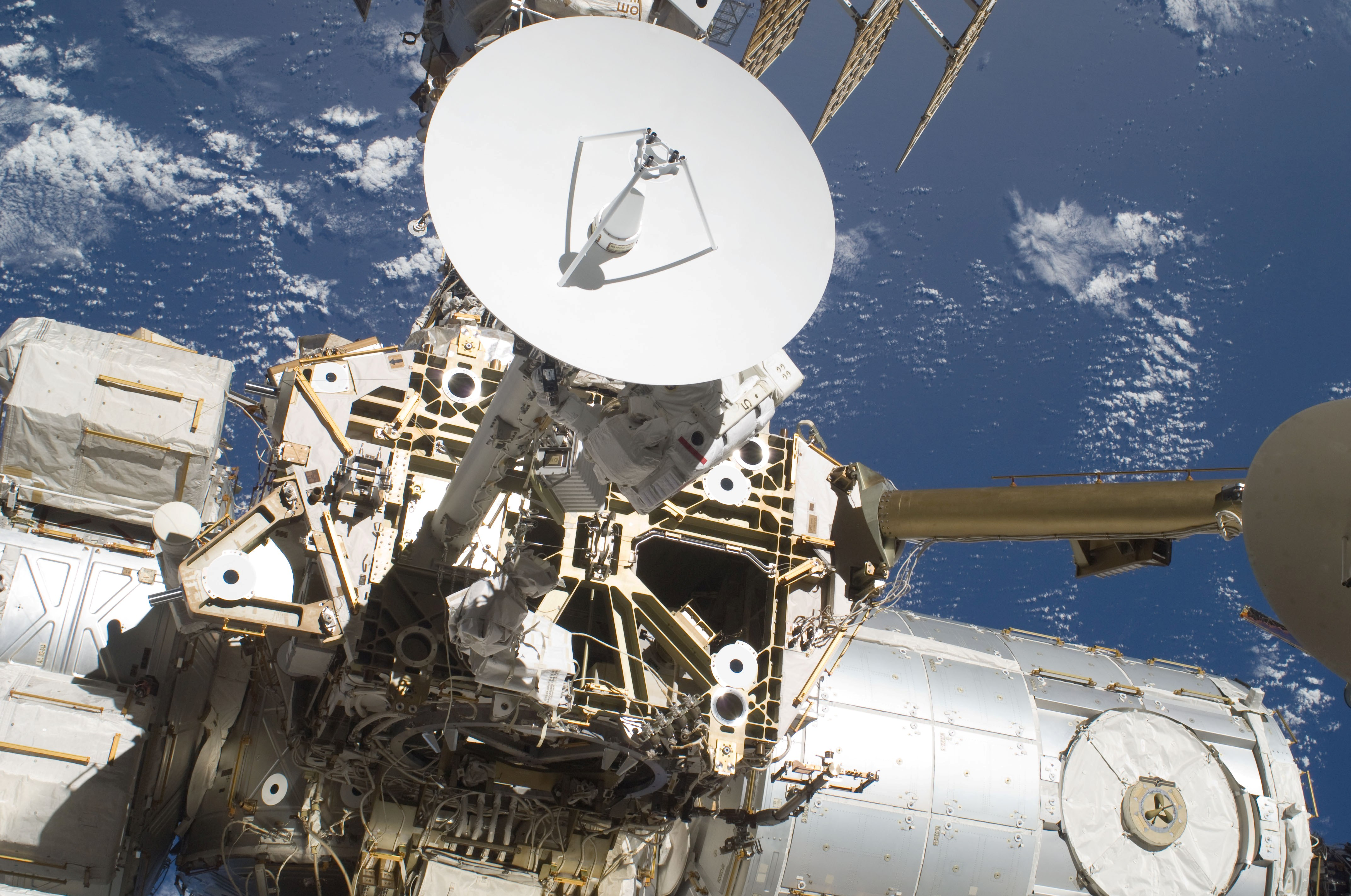 NASA astronaut Steve Bowen (partially obscured by Ku-band antenna), STS-132 mission specialist, participates in the mission's first session of extravehicular activity (EVA) as construction and maintenance continue on the International Space Station. During the seven-hour, 25-minute spacewalk, Bowen and NASA astronaut Garrett Reisman (out of frame), mission specialist, loosened bolts holding six replacement batteries, installed a second antenna for high-speed Ku-band transmissions and adding a spare parts platform to Dextre, a two-armed extension for the station's robotic arm.